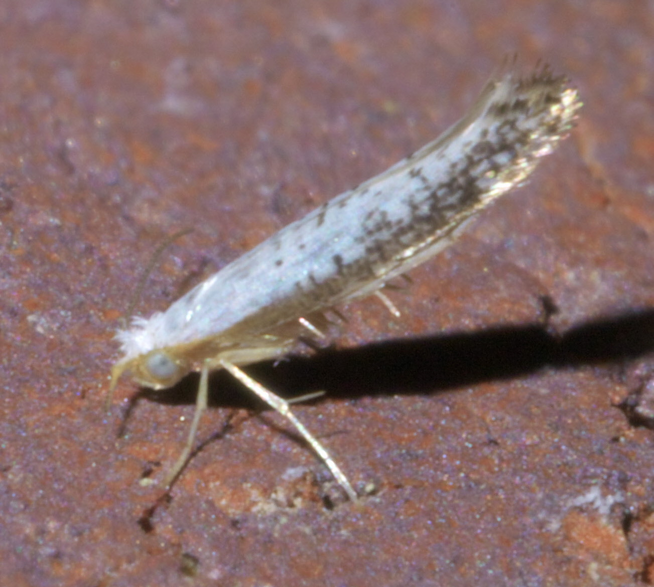 Argyresthia subreticulata, speckled argyresthia, Size: about 4 mm, ID Confidence: 90